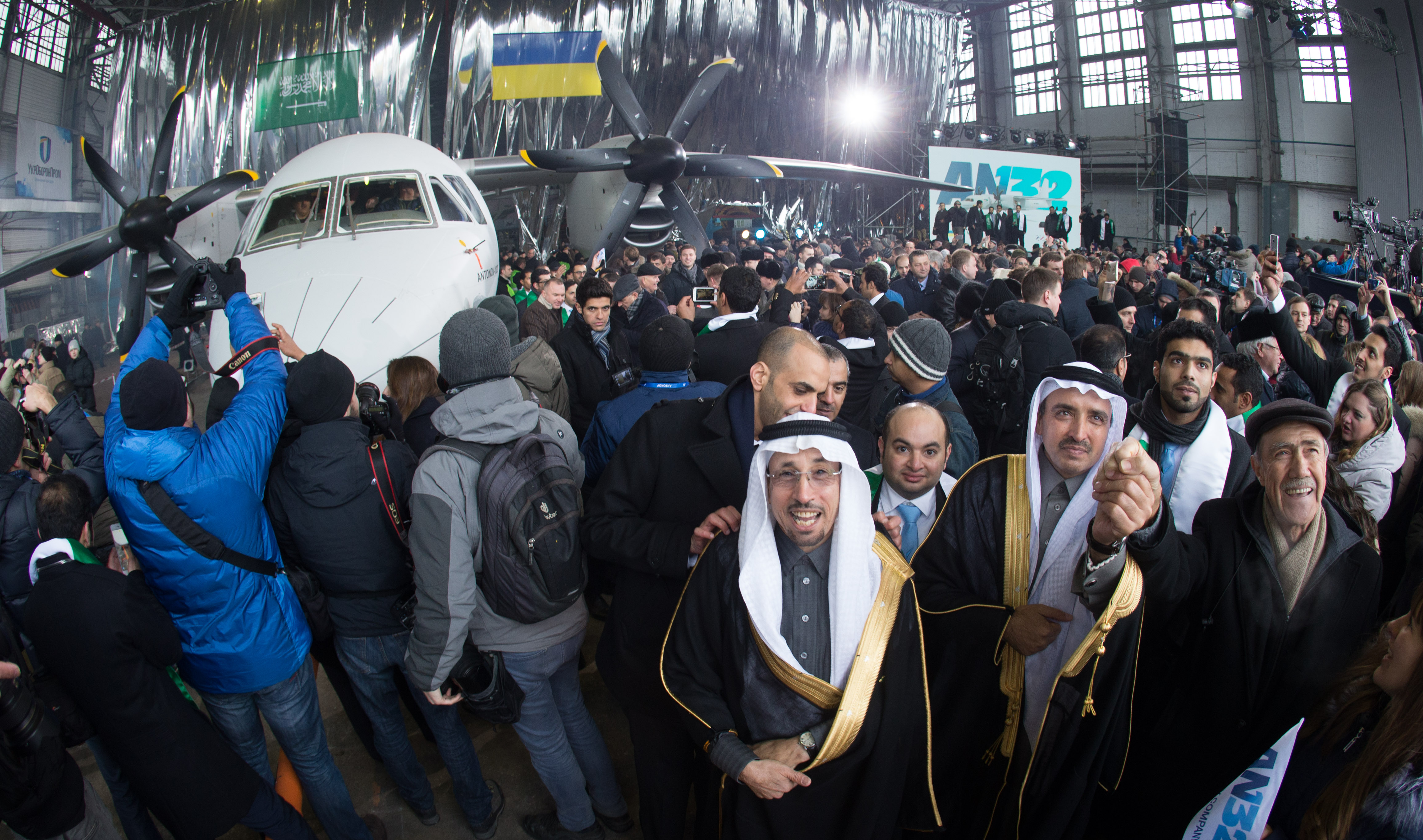 Antonov An-132D roll out ceremony